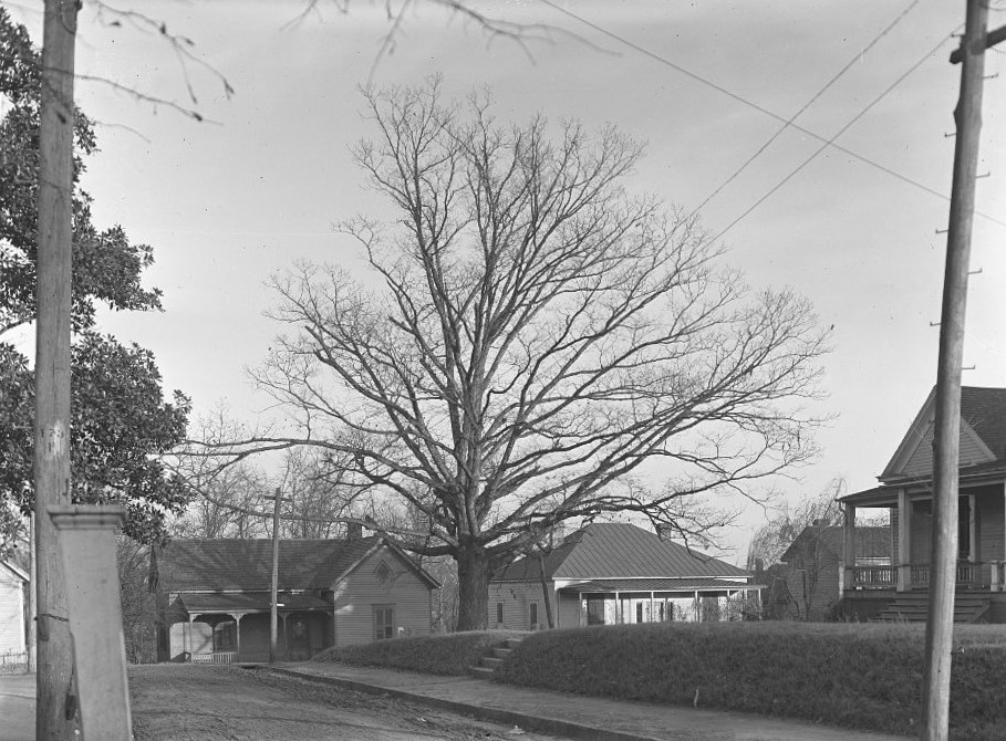 Houses, street and large white oak, Quercus alba. The only tree in the world that owns itself. also which is the Athens Historical Society. 1910. Photo by Huron H. Smith. Location: Athens, Georgia, U.S.A., North America Original material: 5x7 inch glass negative Digital Identifier: CSB31263 Learn more about The Field Museum's